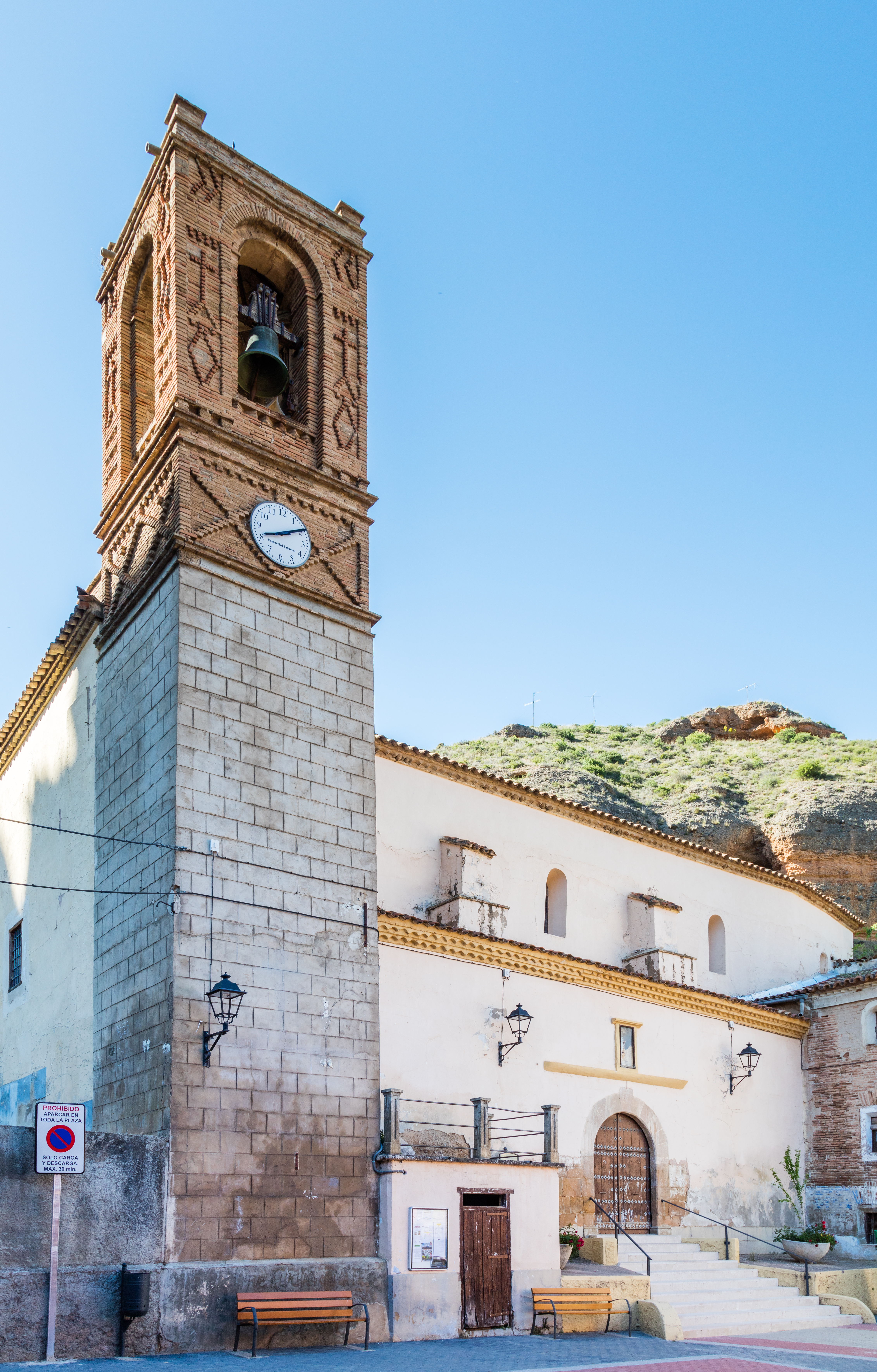 Church of St. Mary Magdalene, Los Fayos, Saragossa, Spain